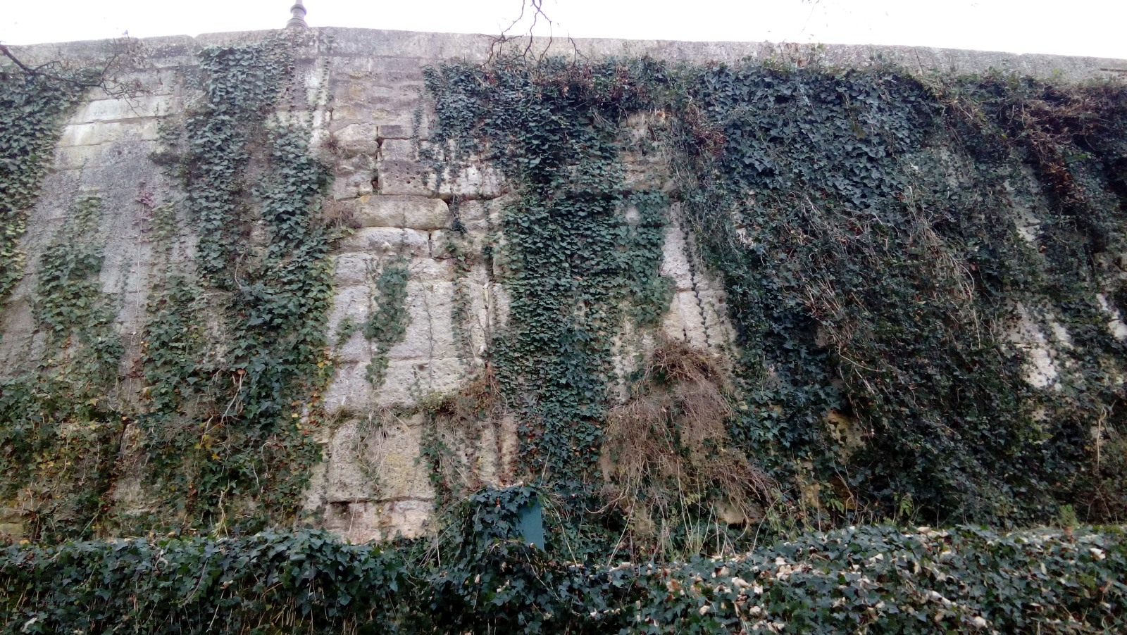 Northern city wall, Angoulême (Charente, SW France) Roman basement.